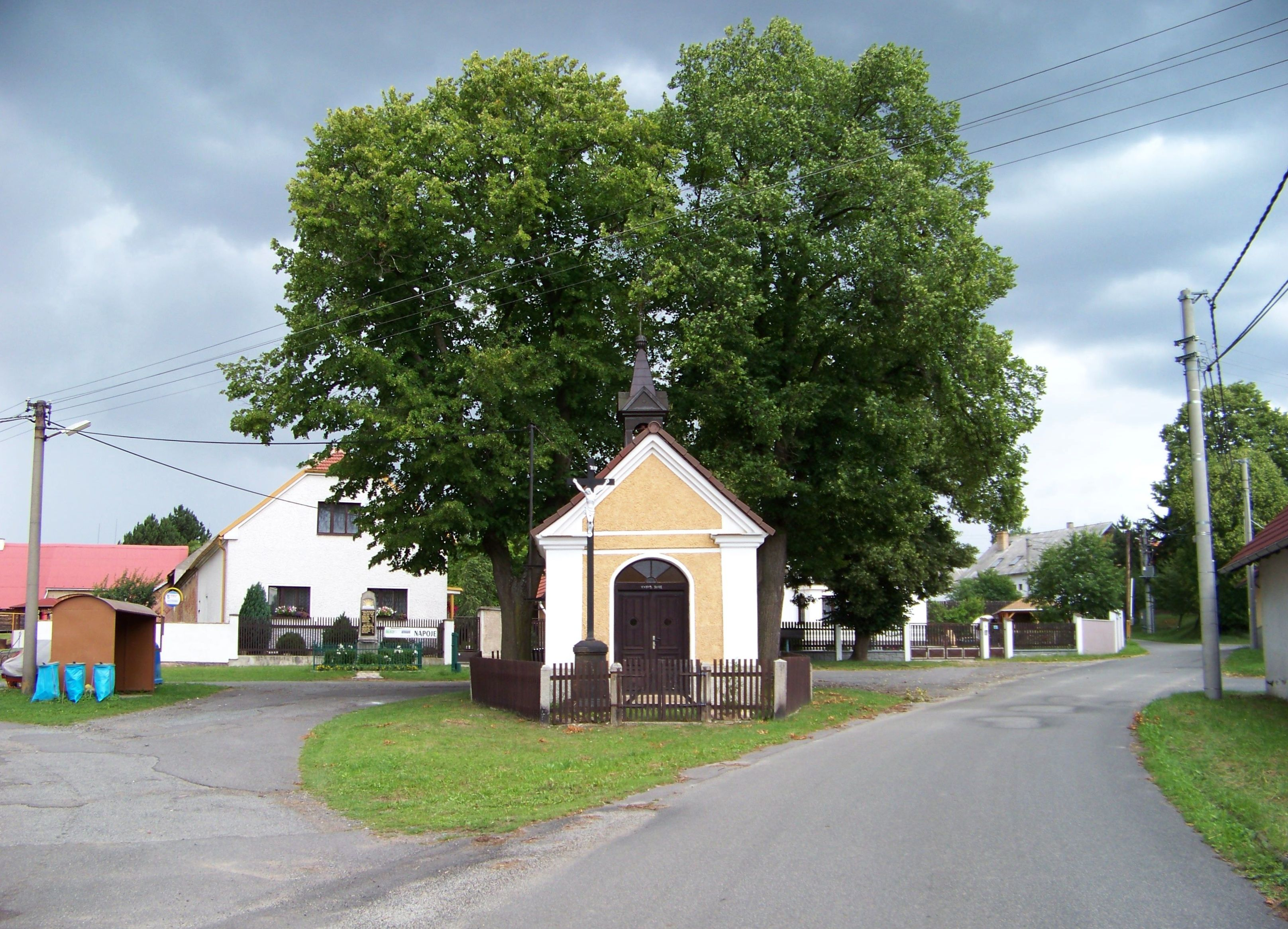 Milín-Konětopy, Příbram District, Central Bohemian Region, the Czech Republic. A common and a chapel.